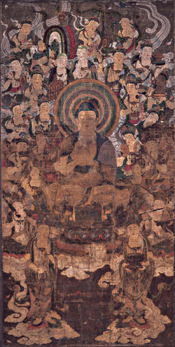 Descent of Amida Triad and 25 Bodhisattvas, Anyoji, Fukui, Fukui, Japan